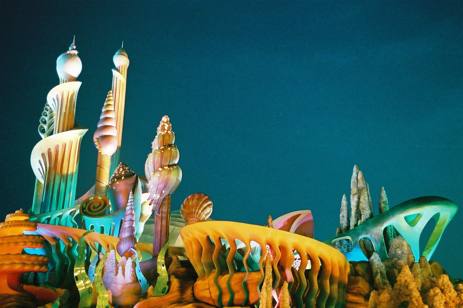 Mermaid lagoon at Tokyo Disney sea